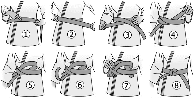 Obi knots martial arts